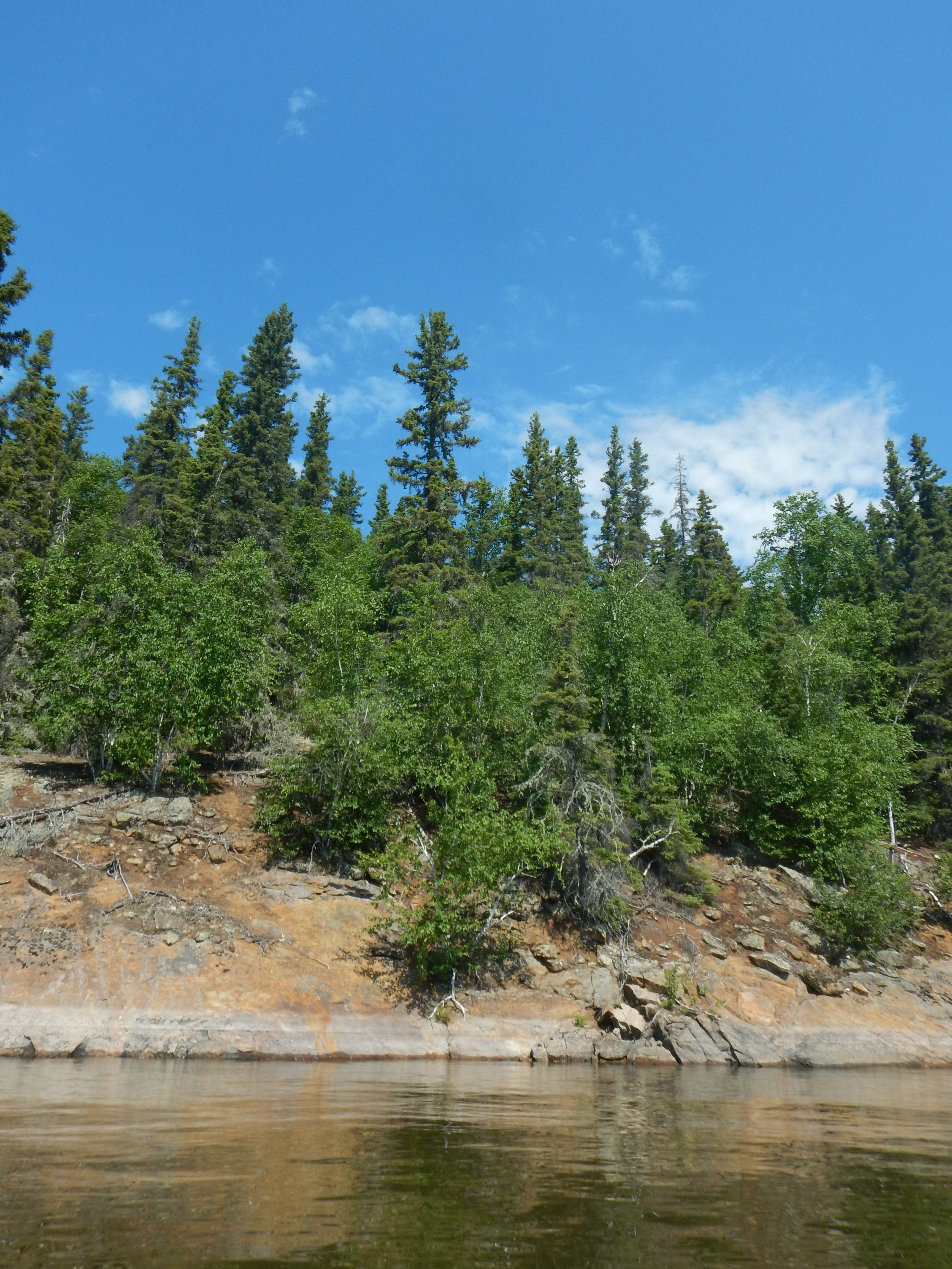 Boreal forest on a rocky outcrop on the Canadian Shield.